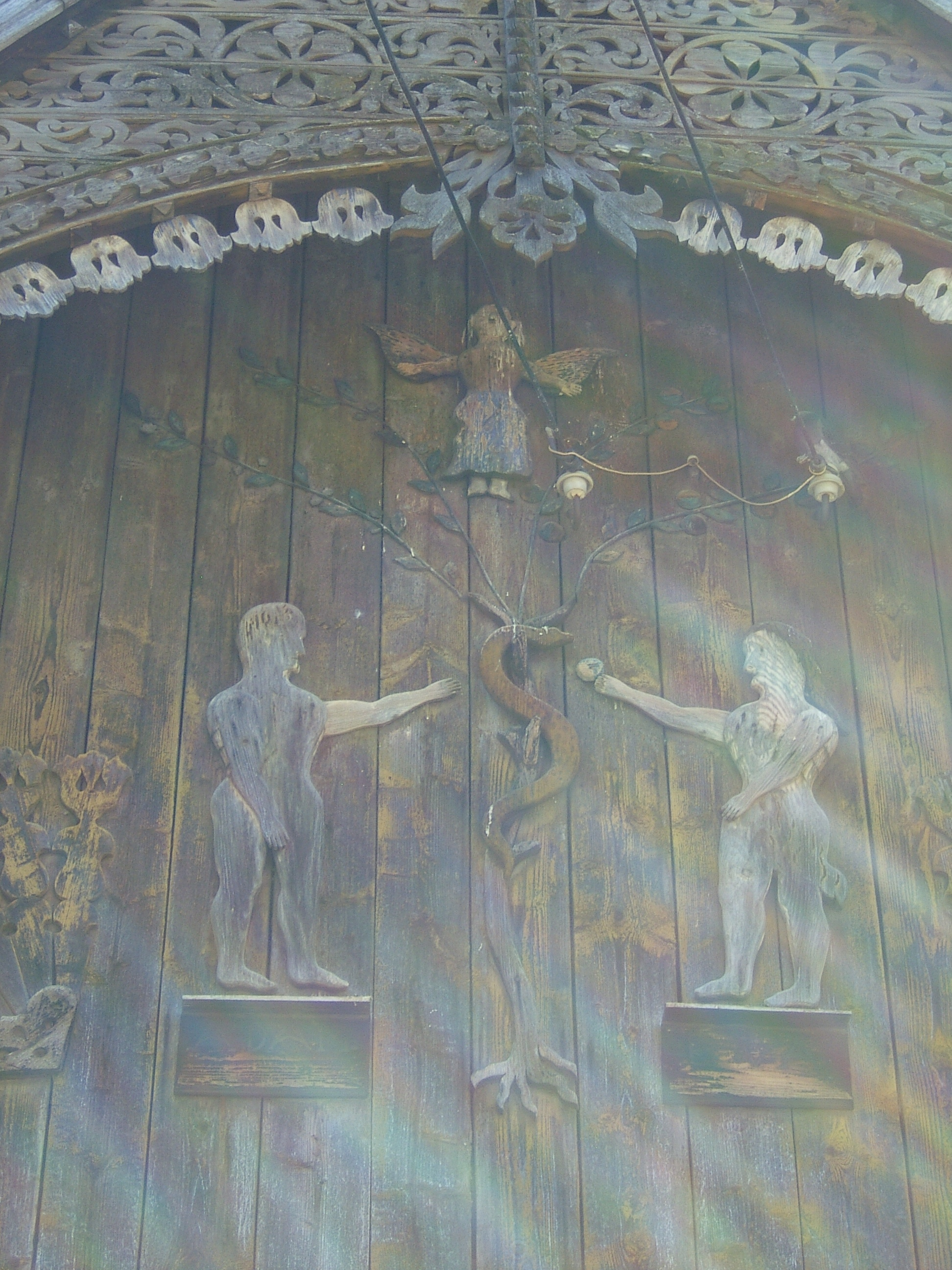 The story of Adam and Eve on the facade of a building in Văleni (hu. Magyarvalkó), Transylvania